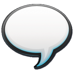 This is the program icon of an image viewer application CDisplay, which was first to support cbz archive for sequential image viewing, especially for DRM free comics and mangas.